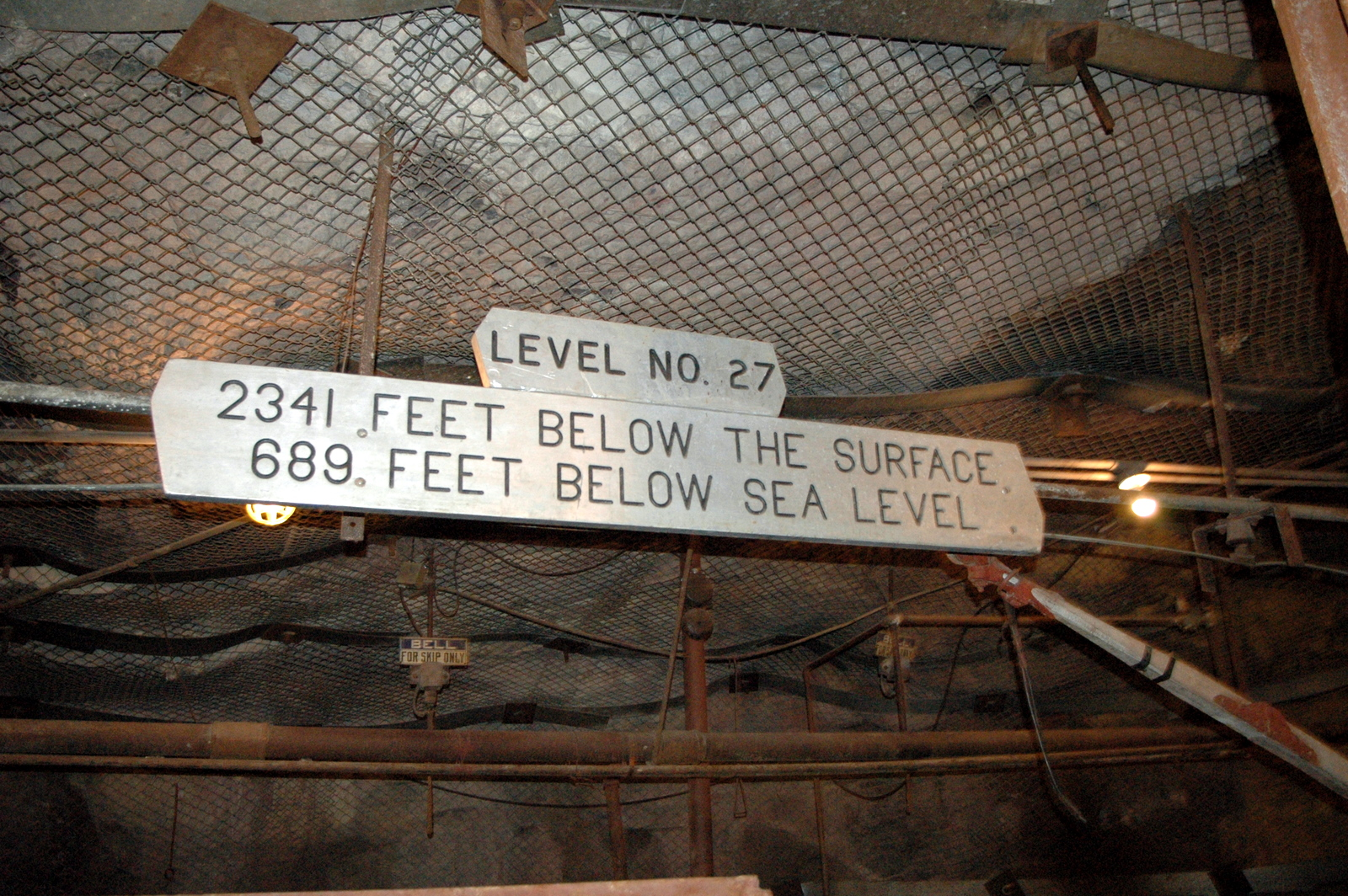 The sign denoting arrival at the 27th level of the Soudan Mine. Reads: "Level No. 27. 2341 Feet below the surface. 689 Feet below sea level."